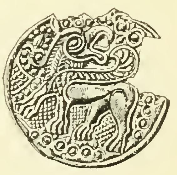 Pale gold circular plaque; Gryphon walking to left